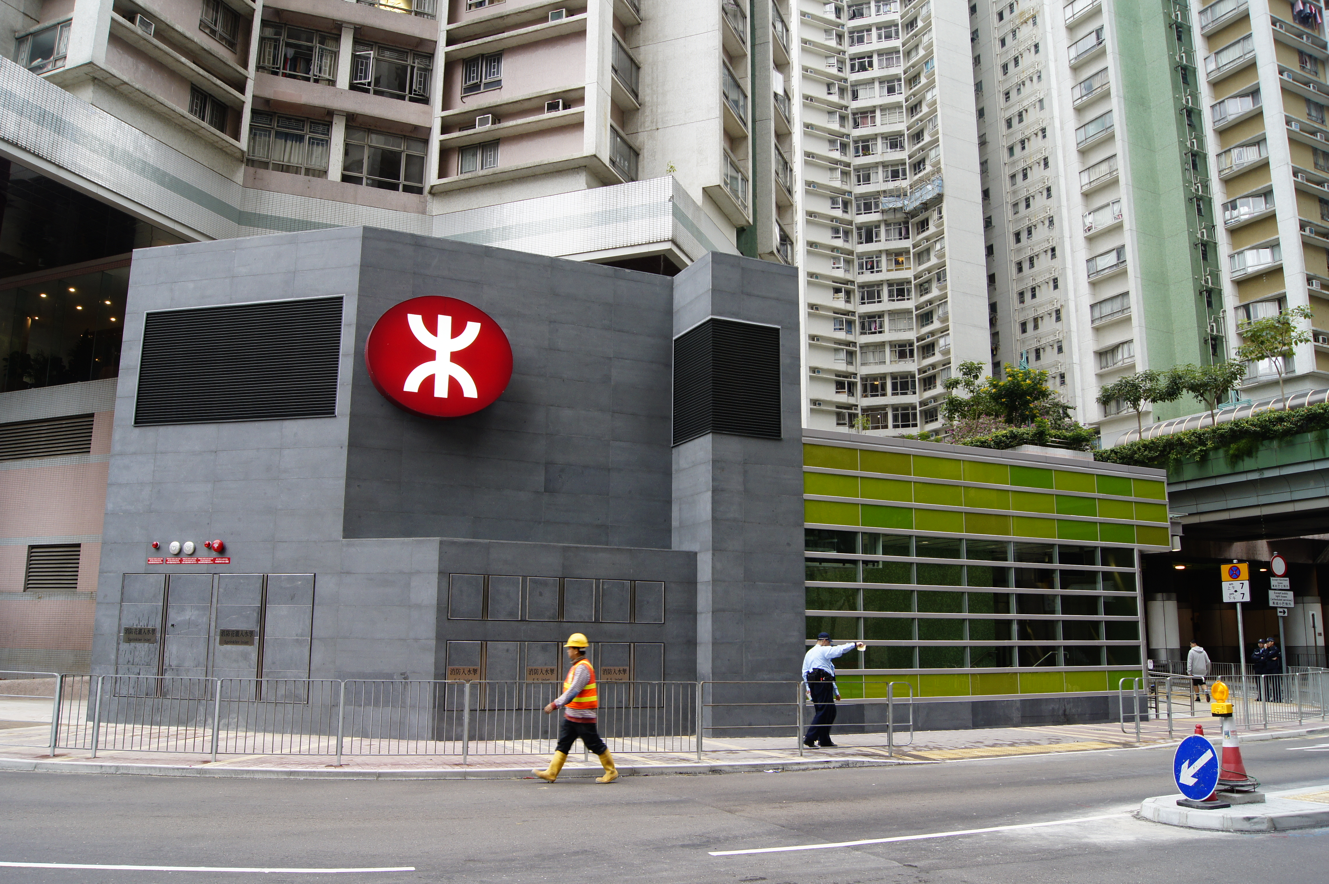 MTR South Horizons Station Exit C